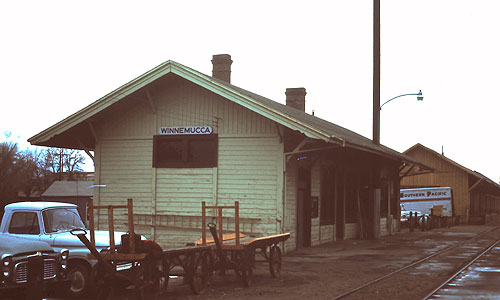 Winnemucca train depot, 1967